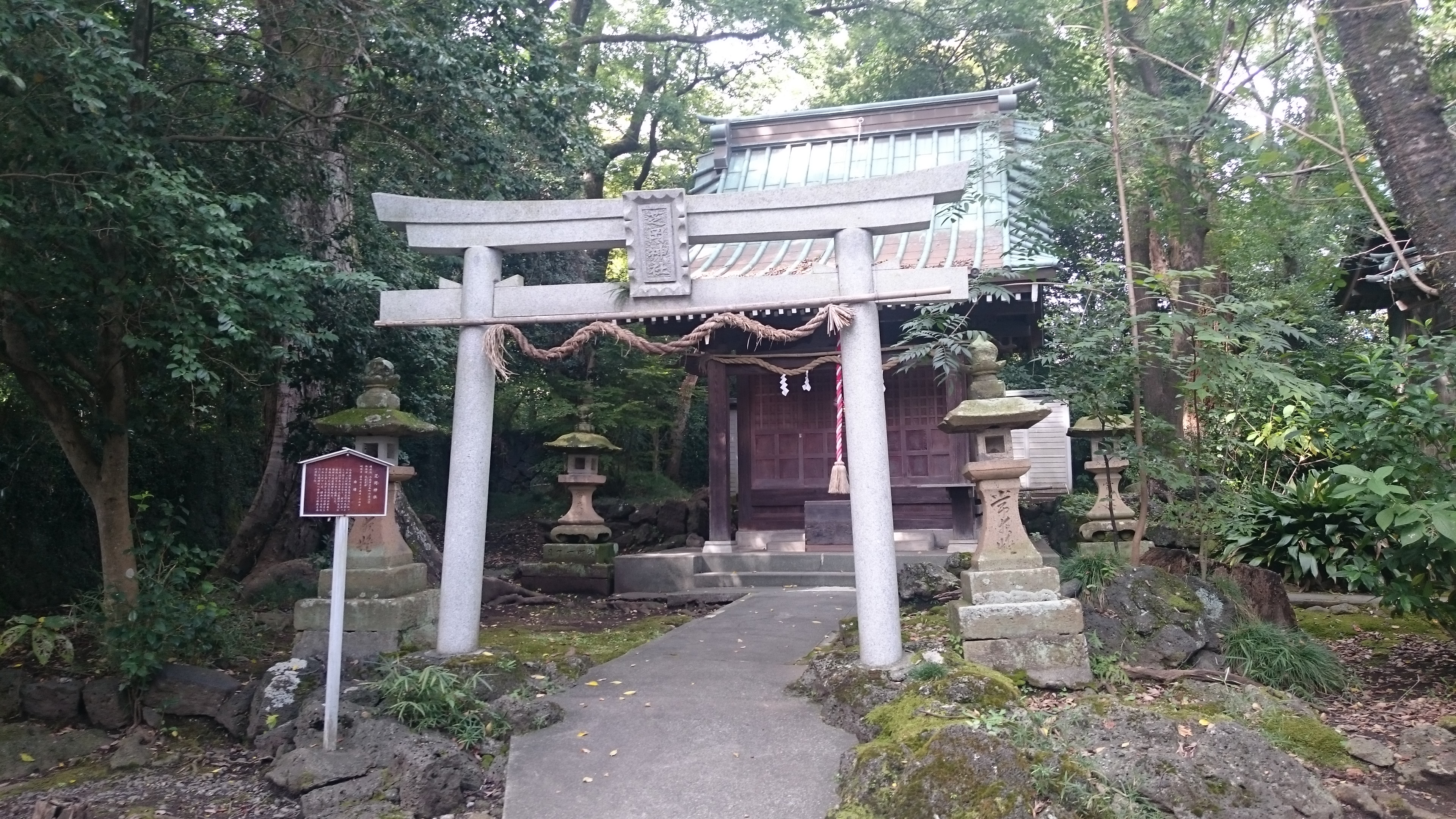 Shibaoka Shrine